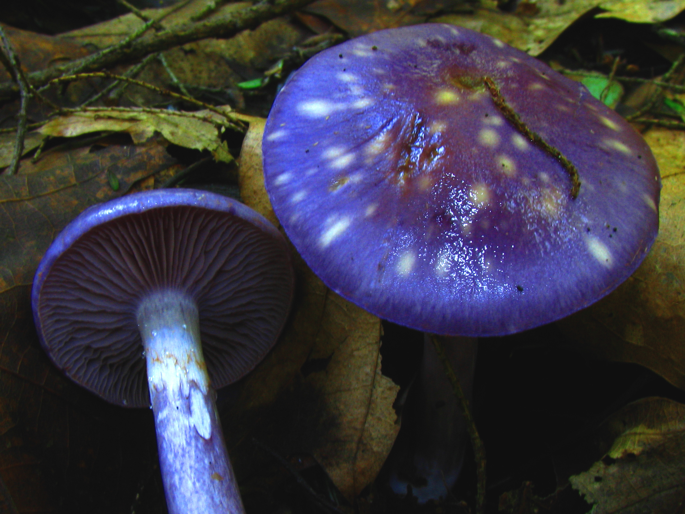 Fruit bodies of the agaric fungus Cortinarius iodes Berk. & M.A.Curtis. Photographed in Carnifex Ferry Battlefield State Park, Nicholas Co., West Virginia, USA. Image brightened (+15, Photoshop) by uploader.